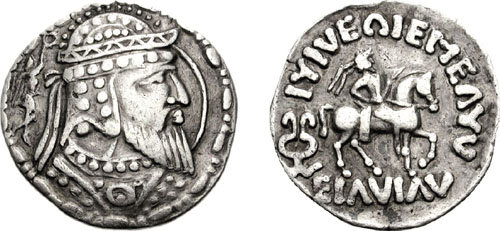 Coin of a certain Artav/Artabanus, who was the ruler of Khwarezm during the 1st-2nd century.